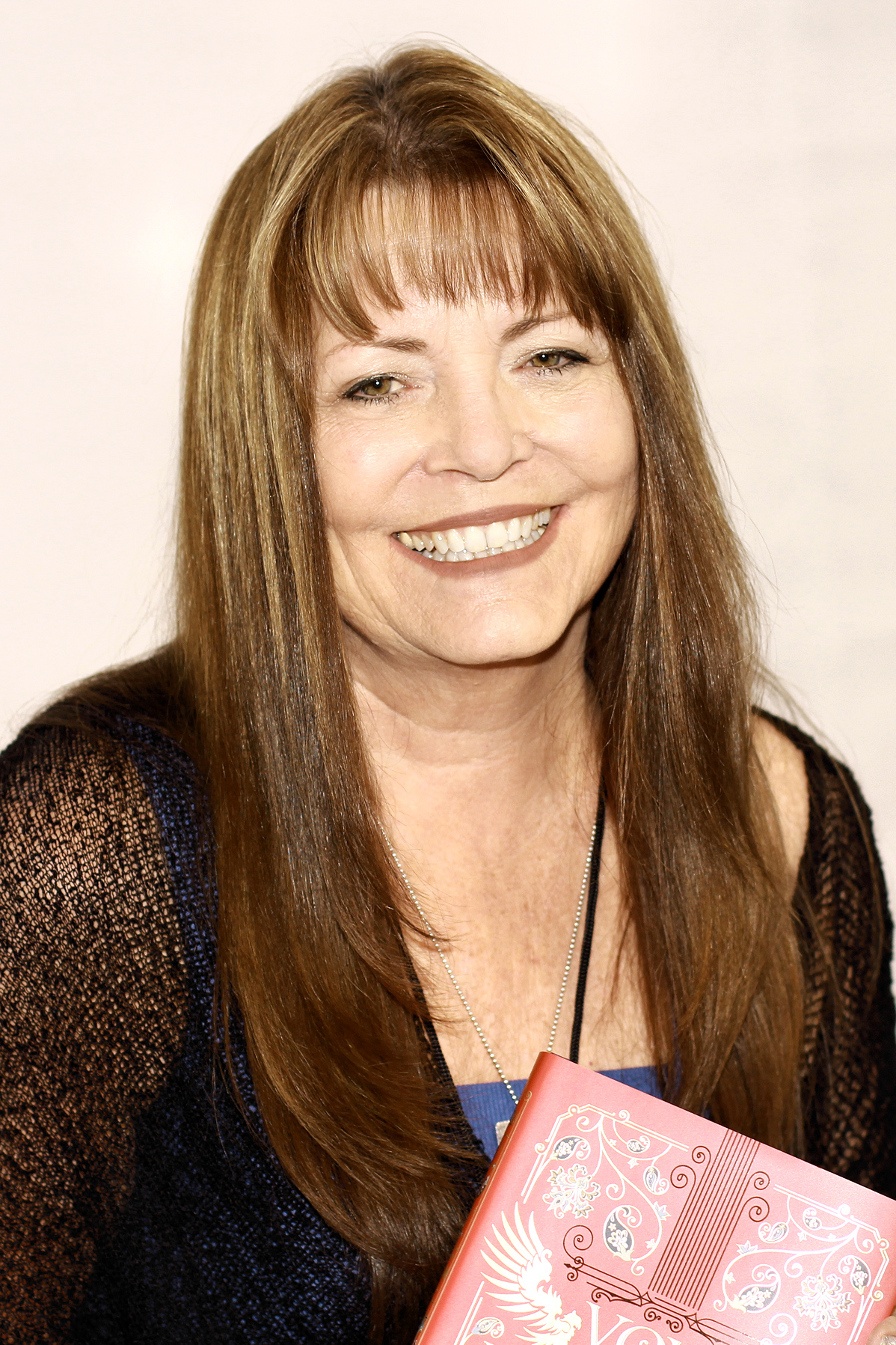 Author Mary E. Pearson at the 2019 Texas Book Festival in Austin, Texas, United States.